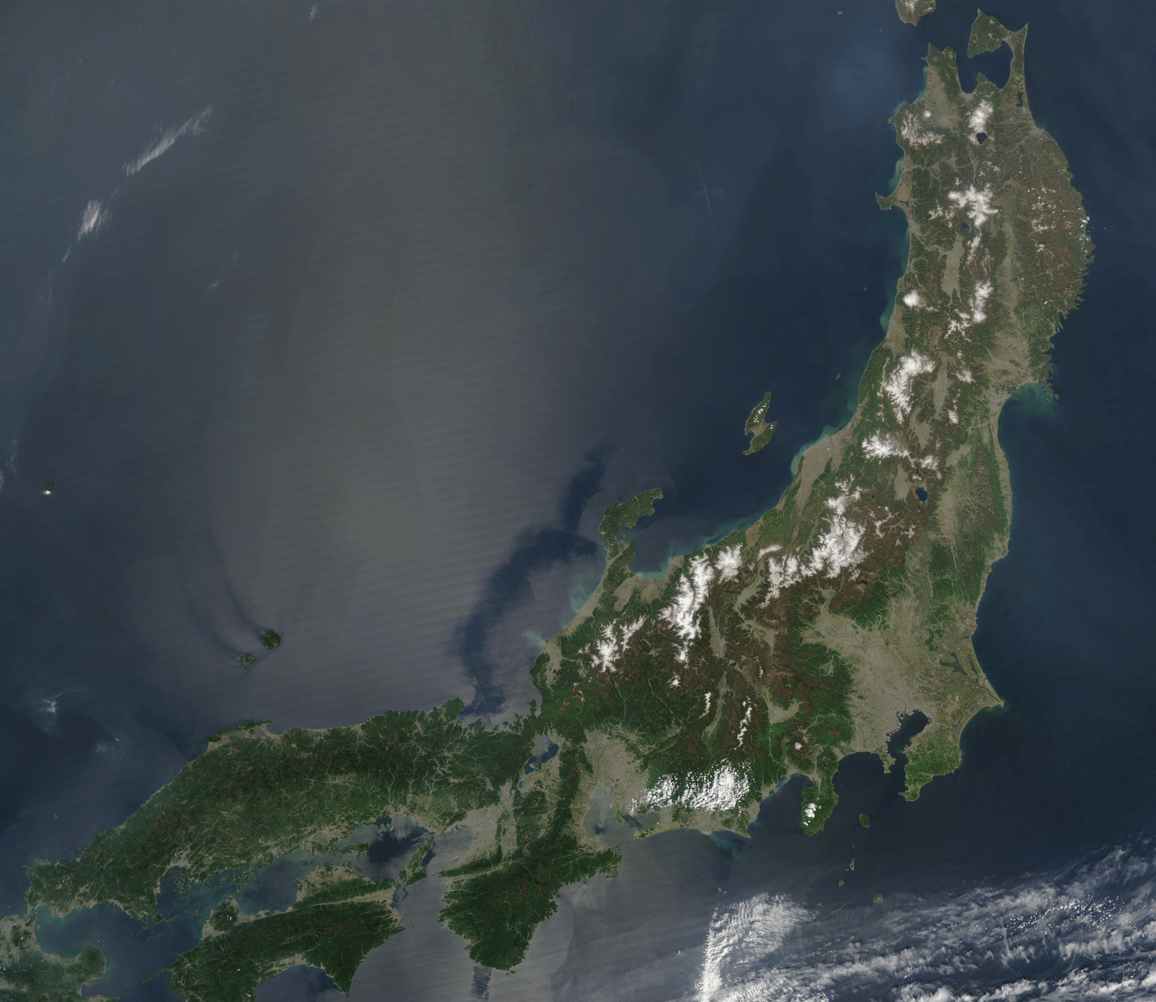 Satellite image of Honshu, the biggest island of Japan. Taken from NASA's Visible Earth